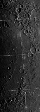 Cropped from Image:Mercury Caloris-Basin.jpg. Image Credit: Mark Robinson, Northwestern University